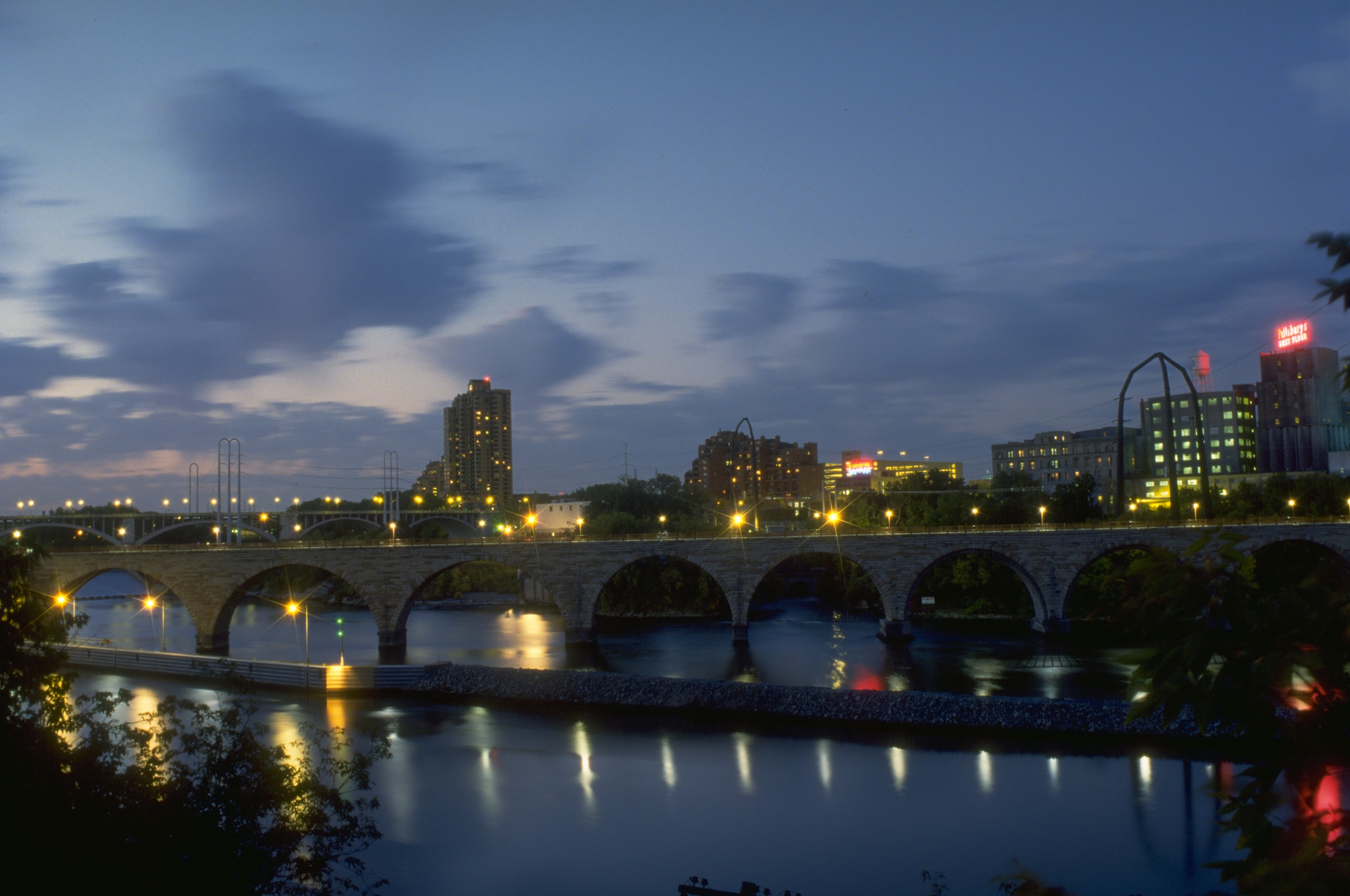 Photo of Minneapolis, MN at dusk featuring the stone arch bridge Copyright 1995 Steven J. Dunlop, Nerstrand, MN, USA. Released under the GFDL; all other rights reserved.